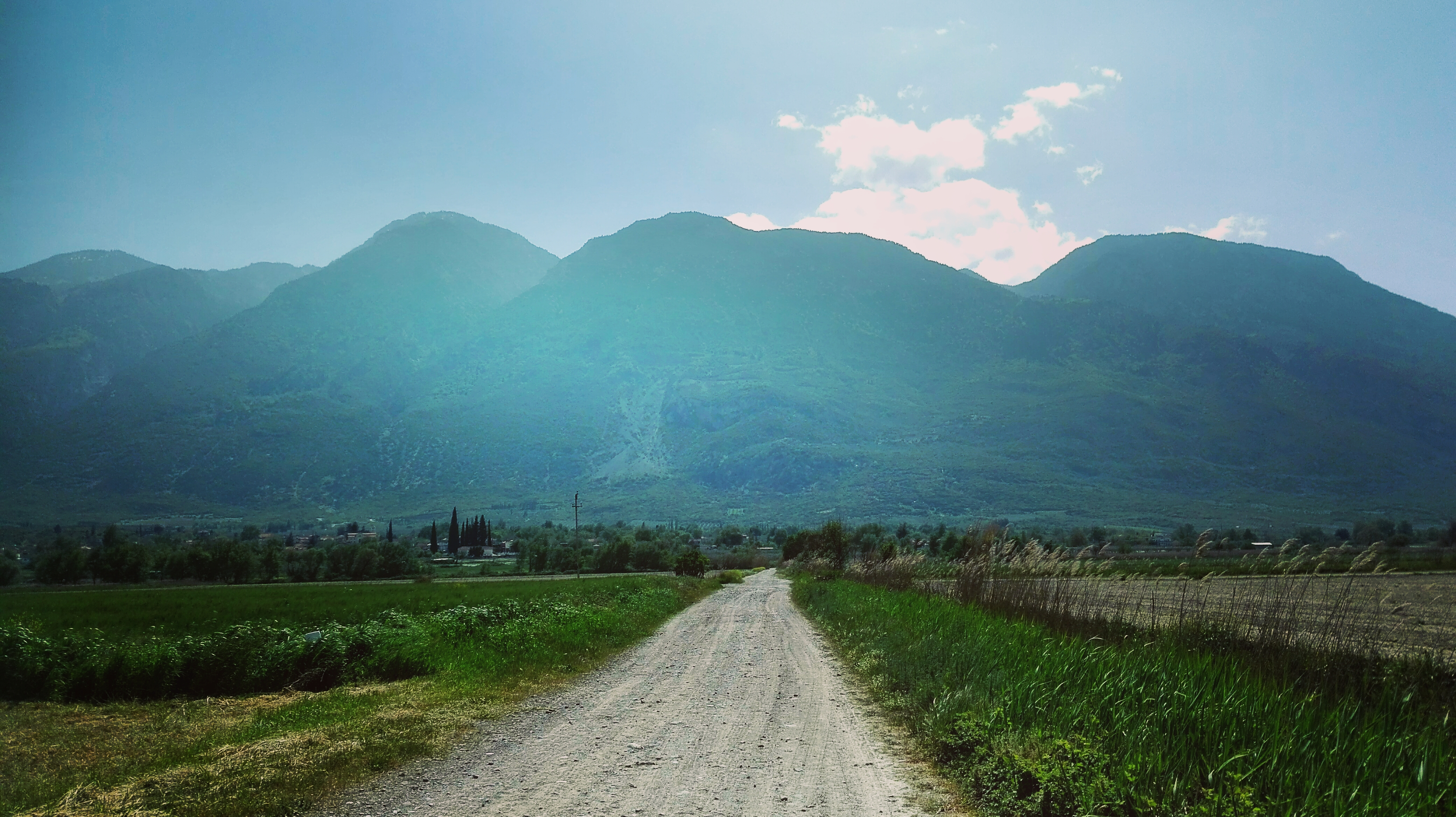 This is a photography of Natura 2000 protected area with ID GR2440002